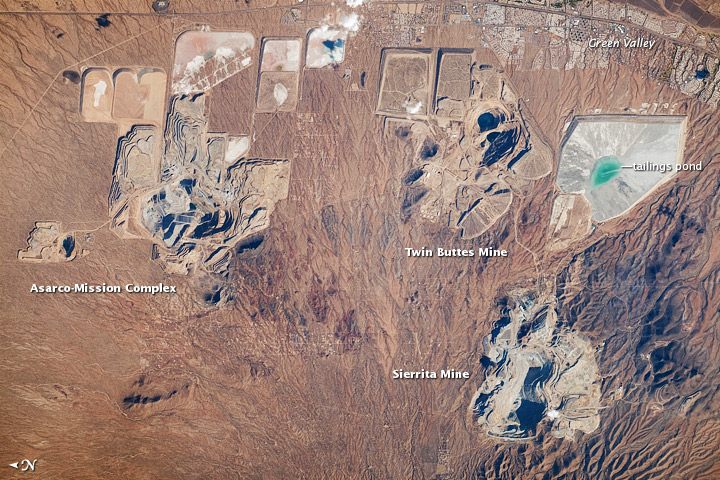 Open Pit Copper Mines, Southern Arizona Astronaut photograph ISS022-E-26137 was acquired on January 14, 2010, with a Nikon D3 digital camera using an equivalent 440 mm lens, and is provided by the ISS Crew Earth Observations experiment and Image Science & Analysis Laboratory, Johnson Space Center. The image was taken by the Expedition 22 crew.